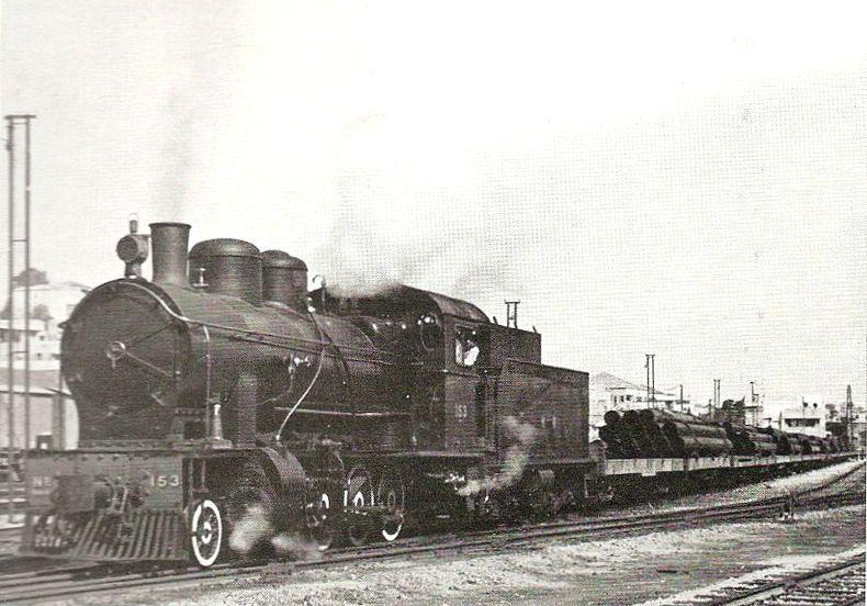 1050mm gauge 2-8-0 steam locomotive, built by Schweizerische Locomotiv- und Maschinenfabrik Winterthur for the Hejaz Railway in 1912, transferred to Palestine Railways by 1927 and pictured in 1946